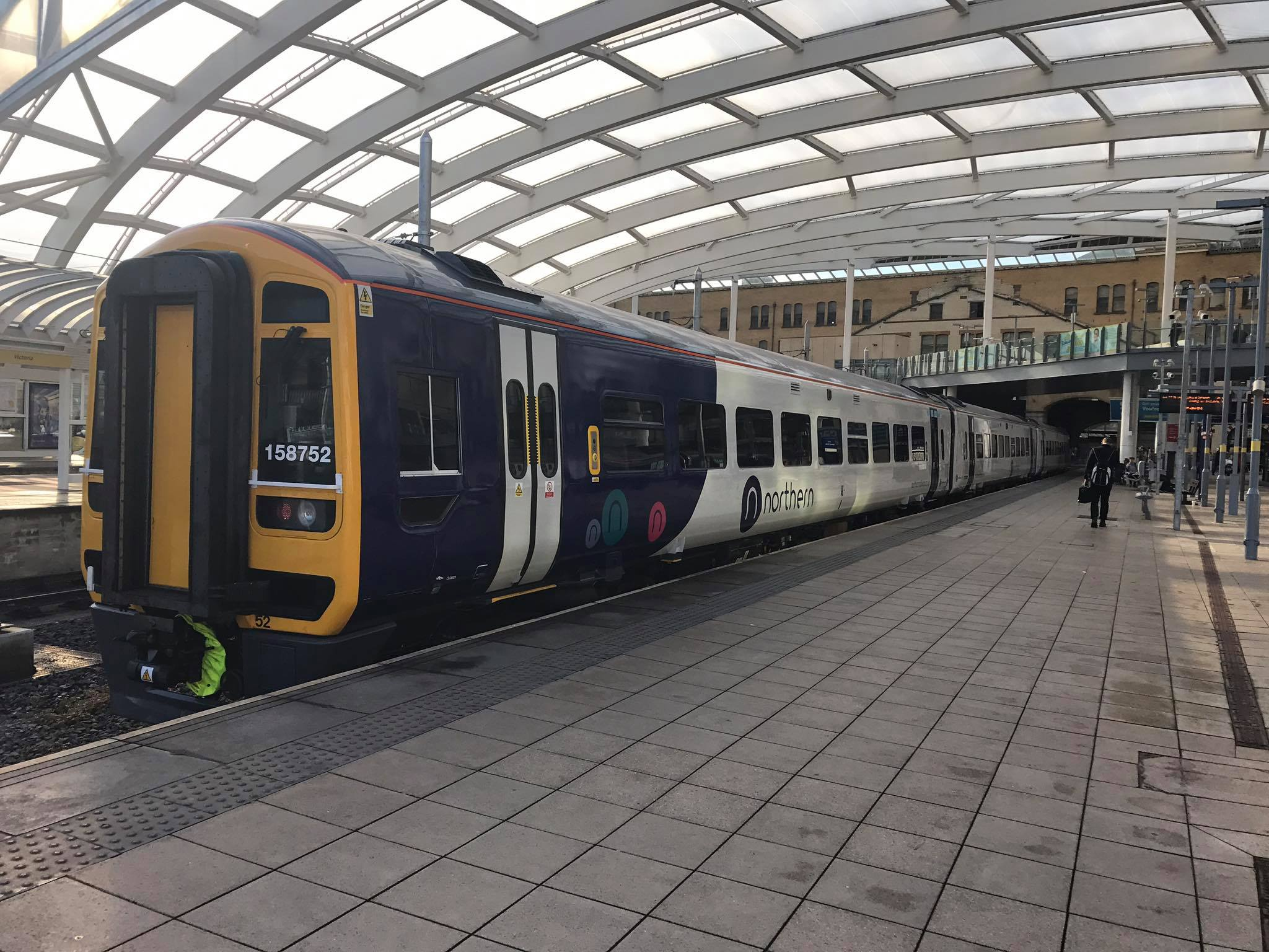 158752, Northern's first 'as new' refurb back from the works, came to visit Man Vic from Leeds today in its shiny new corporate livery. These are the colours of things to come for Northern.